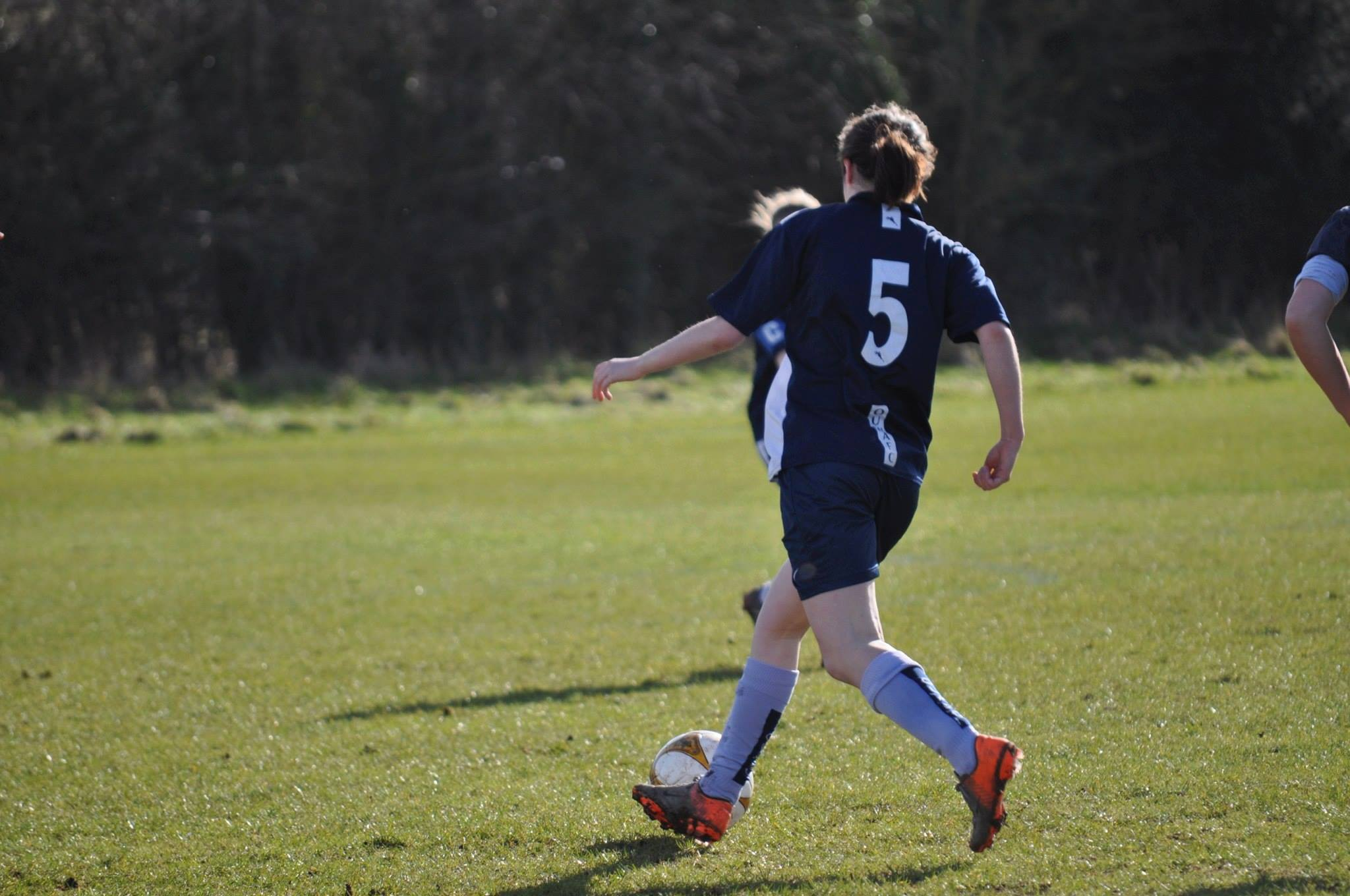 Anna Simpson, Furies Squad 13/14